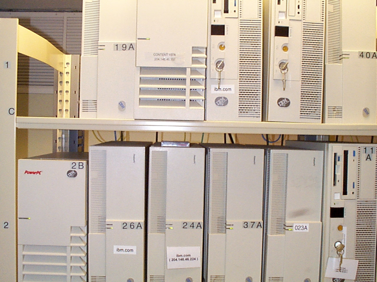 Some IBM RS/6000 AIX servers which were powering in January 1998.